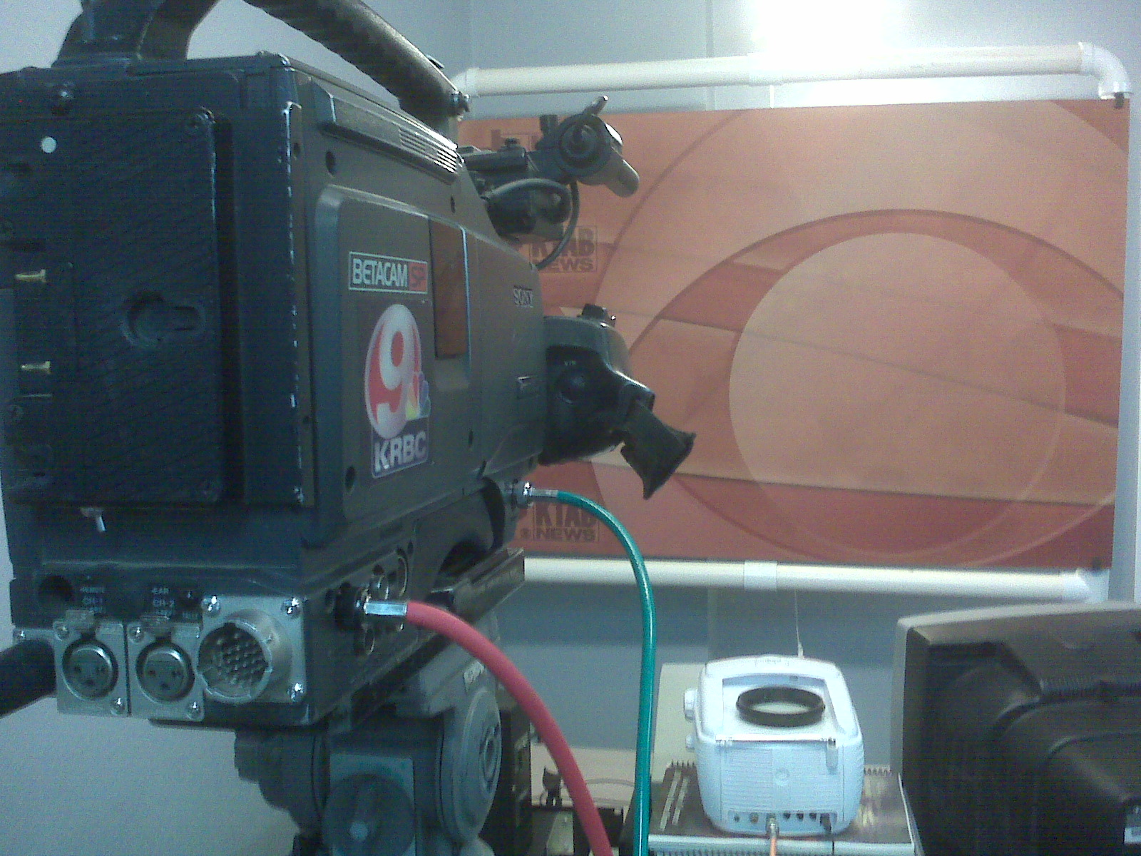 A late-1990s Sony UVW-100B BetacamSP one-piece camcorder, since retired from field work, is now used as a camera for newsroom live shots. KTAB-TV/KRBC-TV, Abilene, Texas.